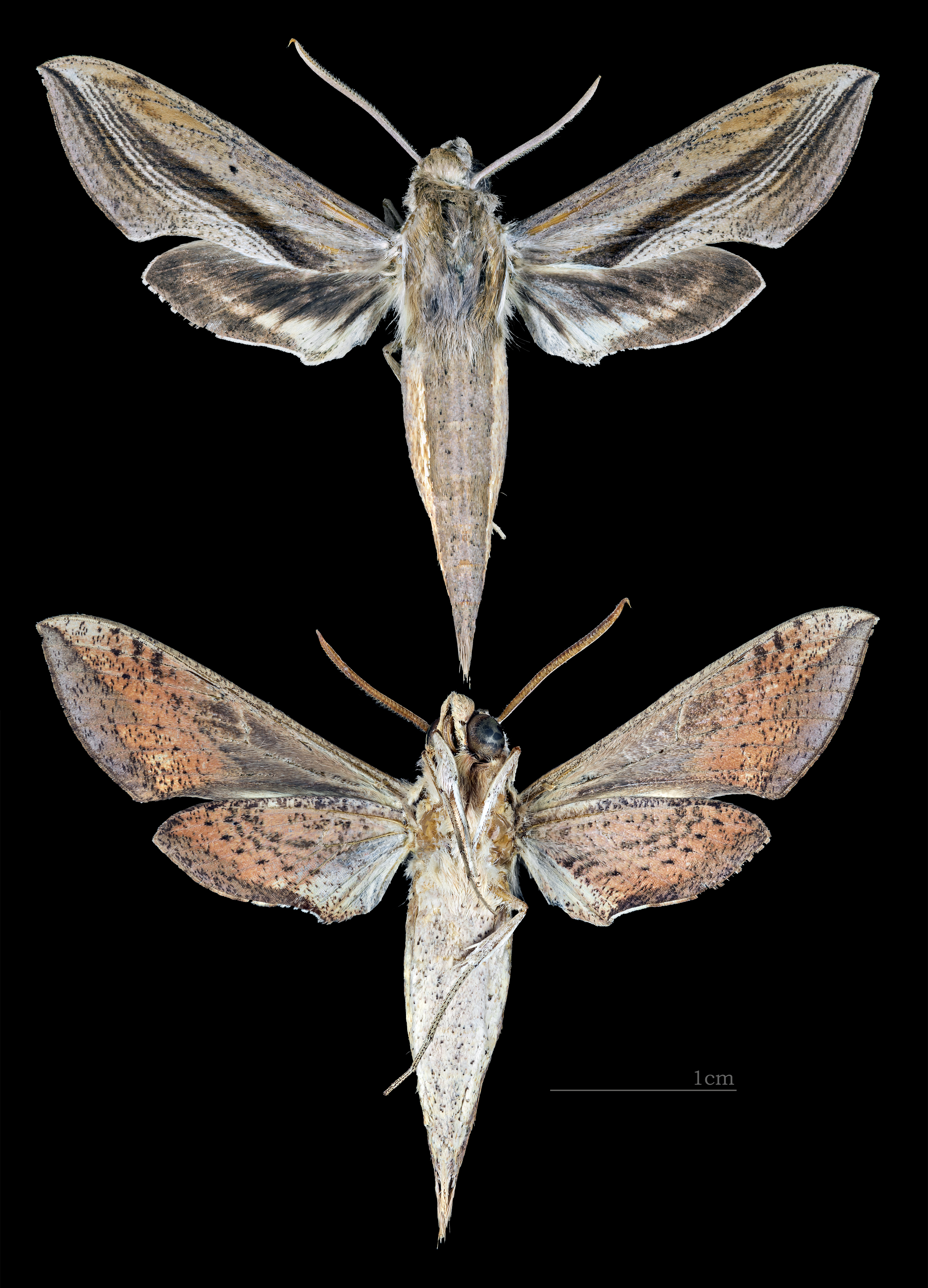 Xylophanes robinsonii - Two views of same specimen Collection of the Mathematician Laurent Schwartz